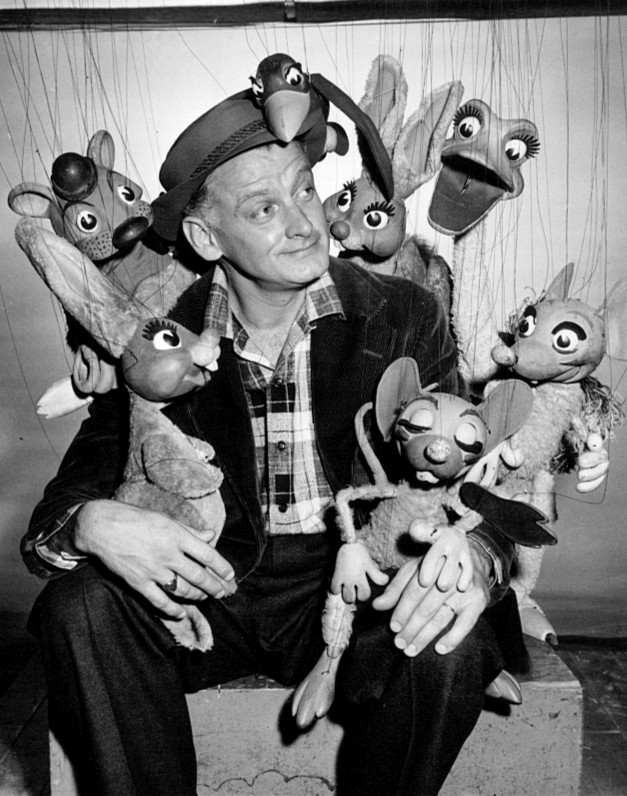 Photo of Art Carney with Bil Baird's puppets for a television production of Peter and the Wolf. The television program aired on ABC November 30, 1958.